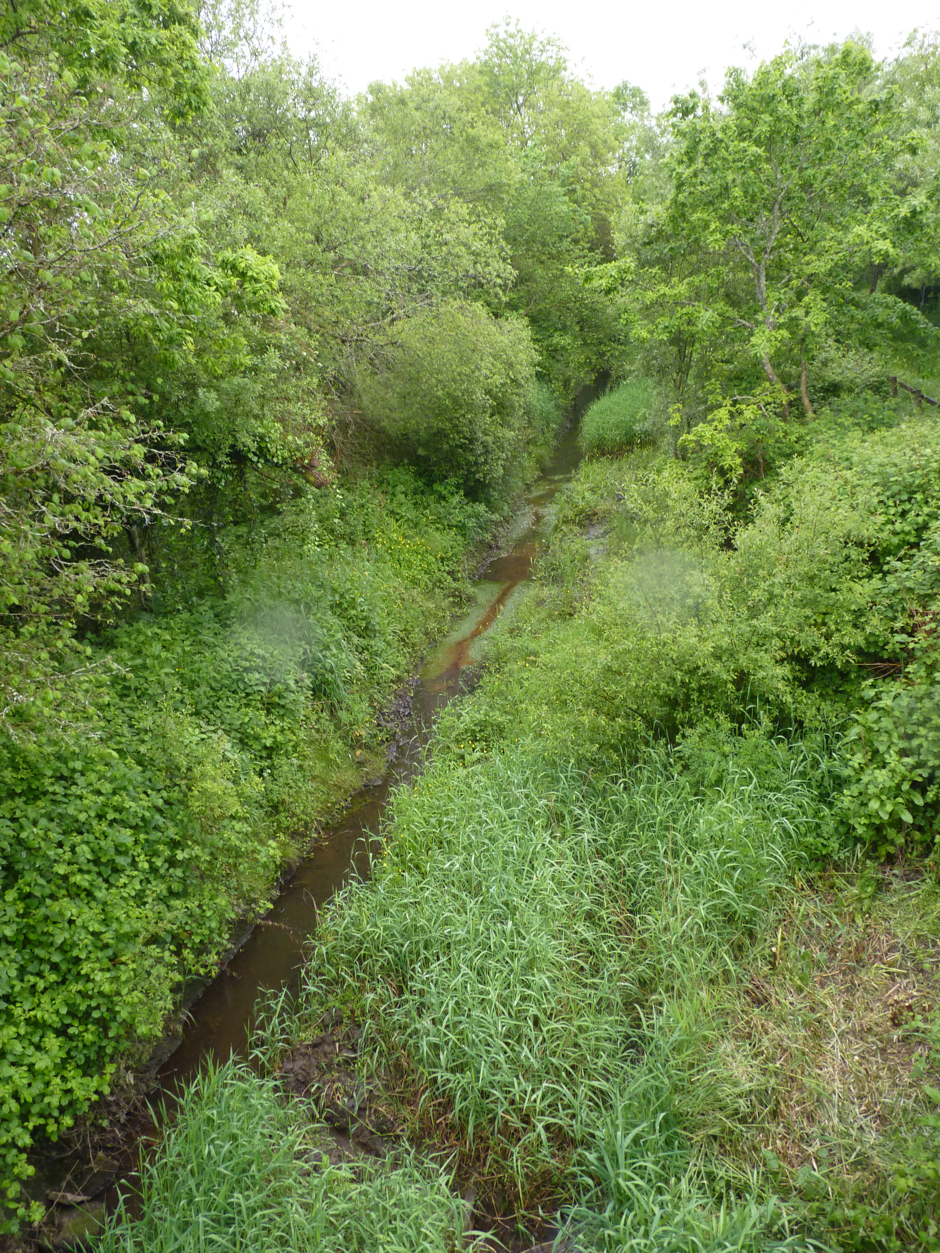 First canal to be built in Wales, in 1766 from Kidwelly Quay, Carmarthenshire, although this section is a later, eastern extension. The towpath later became a railway, and is now overgrown but still a footpath.